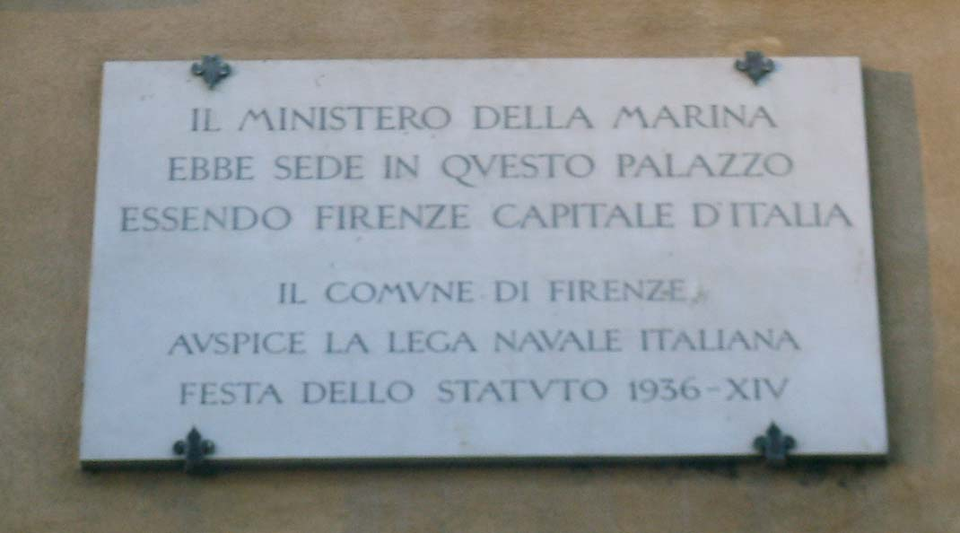 Plaque on Palazzo della Missione palace in Florence, Italy. It commemorates the fact that this palace was used as Naval Office in the years (1866-1870) when Florence was the capital of the Kingdom of Italy.